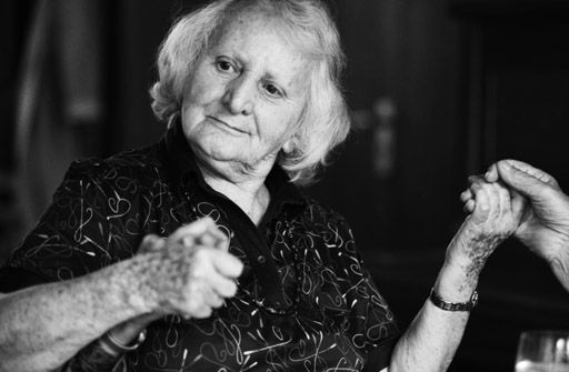 Resident of a nursing home in Munich (Germany)